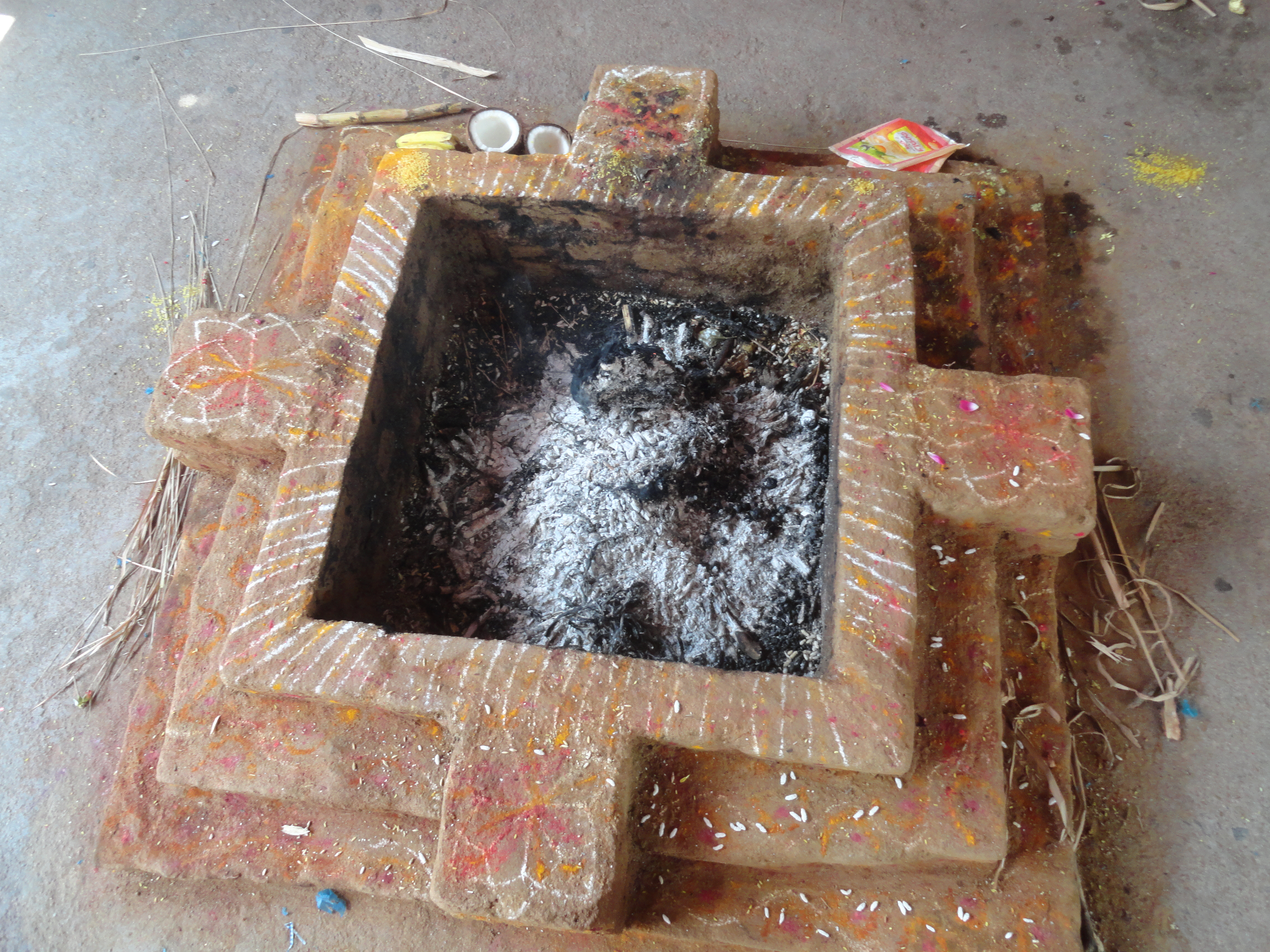 అగ్నిగుండం. హోమం తరువాత..... వనస్థలిపురంలో